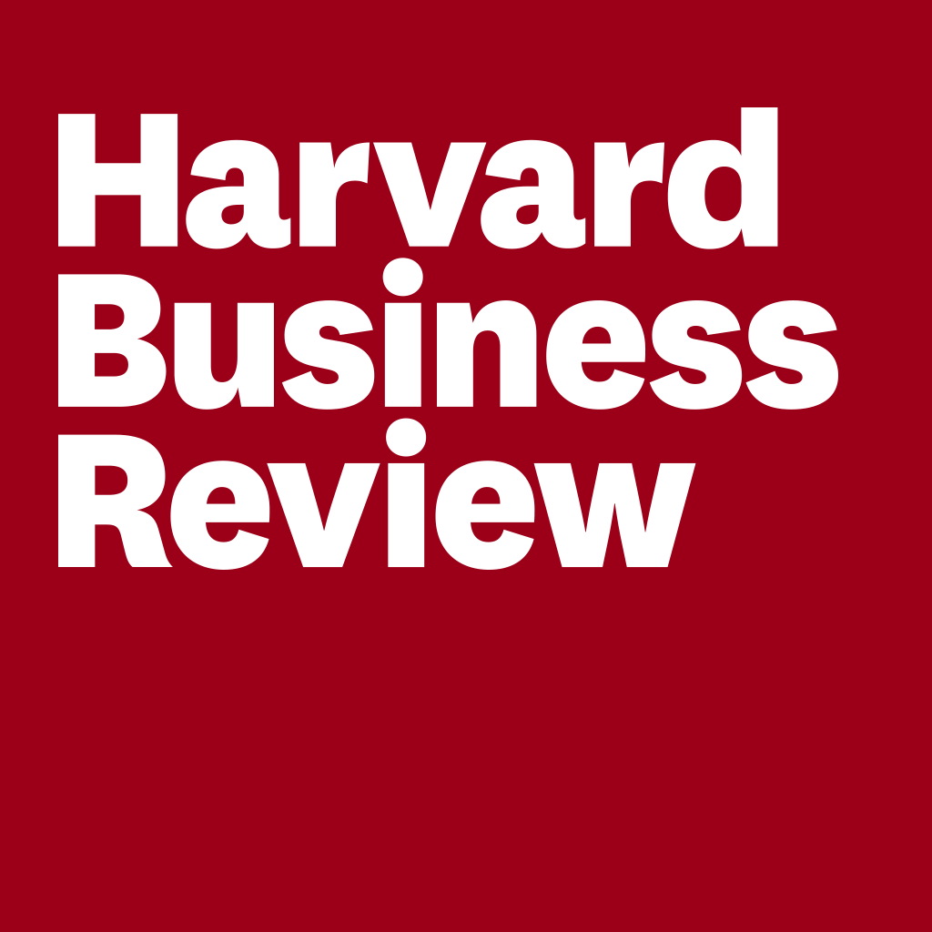 Harvard Business Review Logo